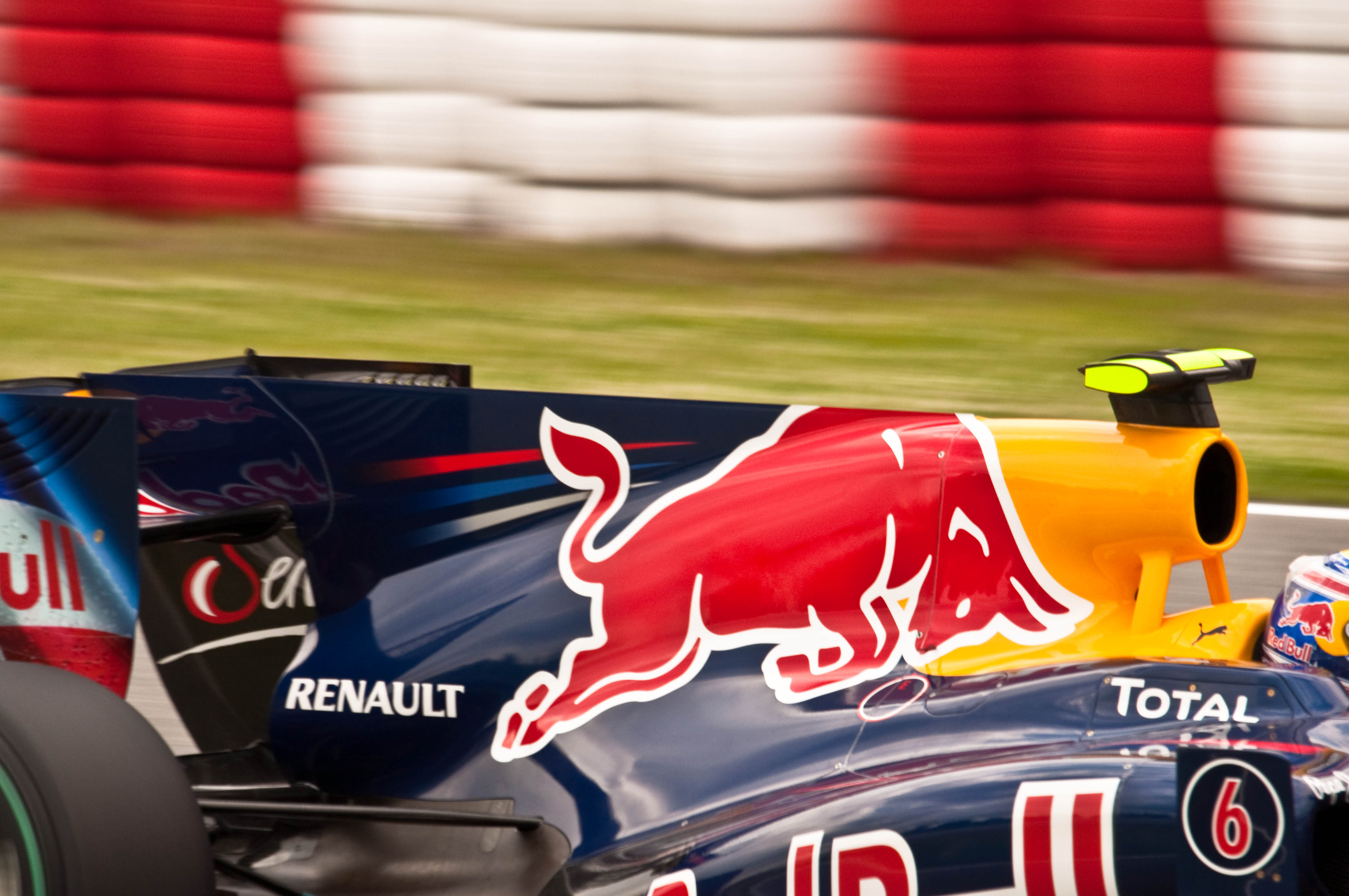 Mark Webber driving for Red Bull Racing at the 2010 Spanish Grand Prix.